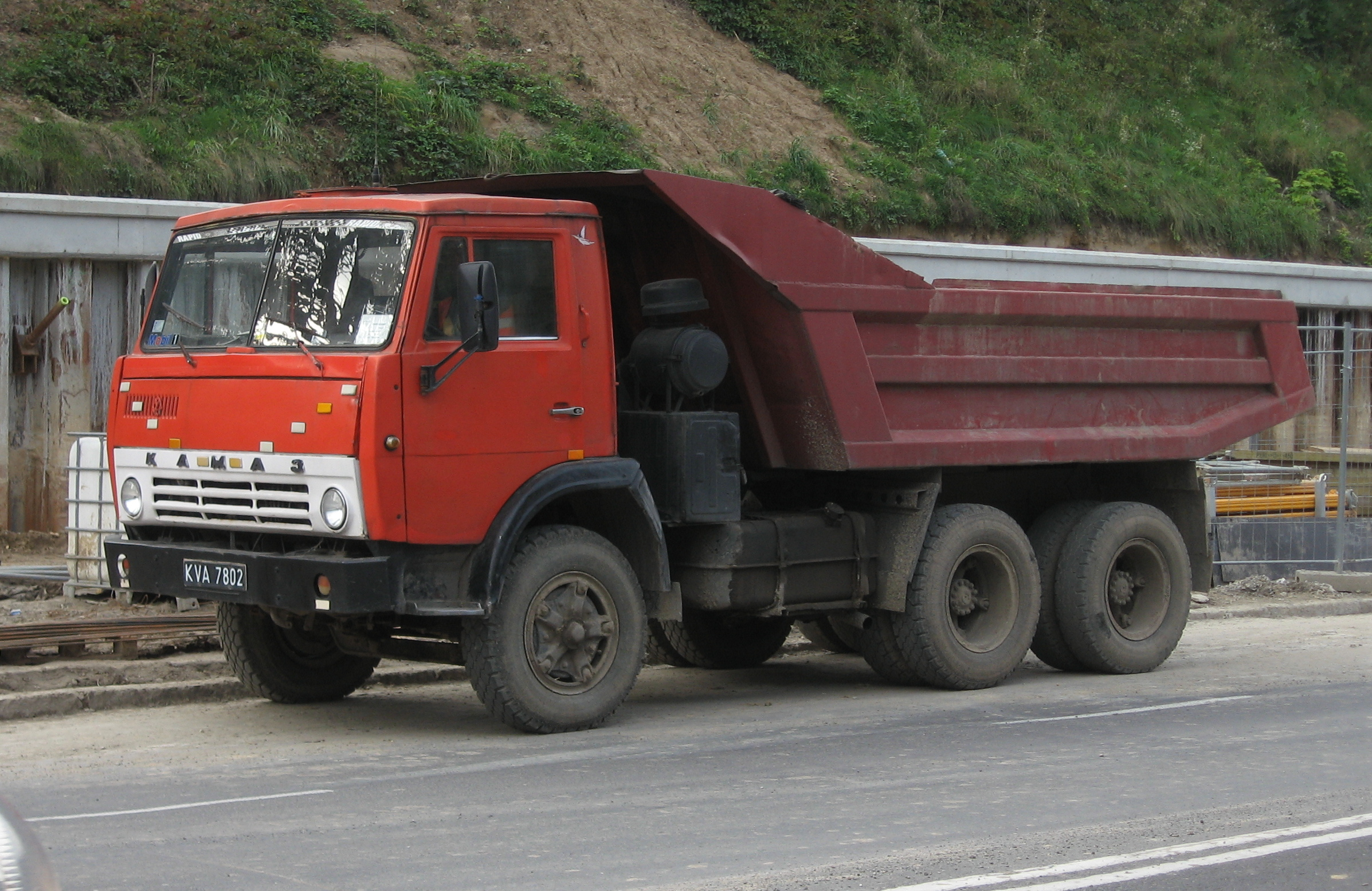 Kamaz truck on Armii Krajowej street in Kraków.